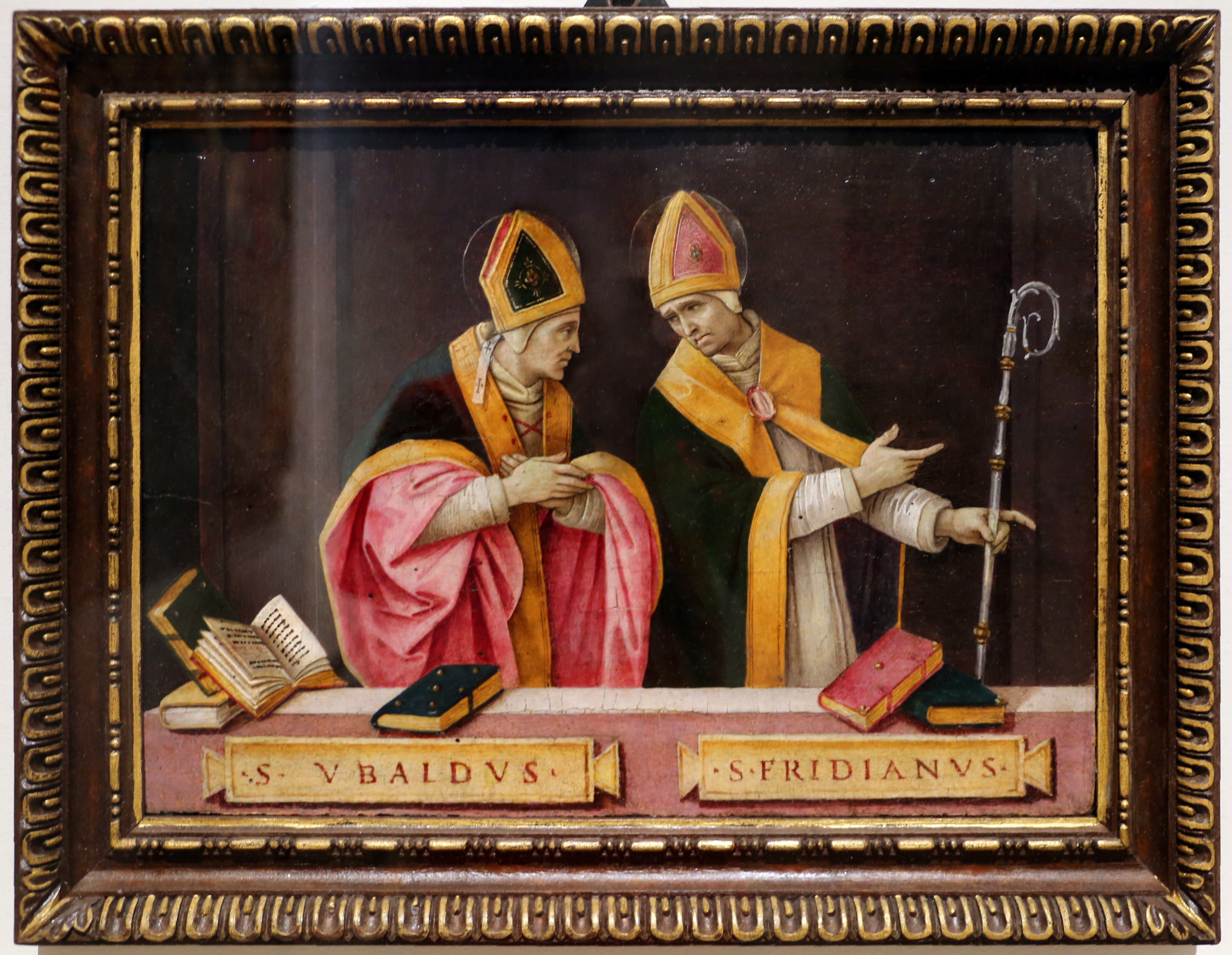 Saint Ubaldo and Saint Frediano, predella for the Adoration of the Magi by Filippino Lippi